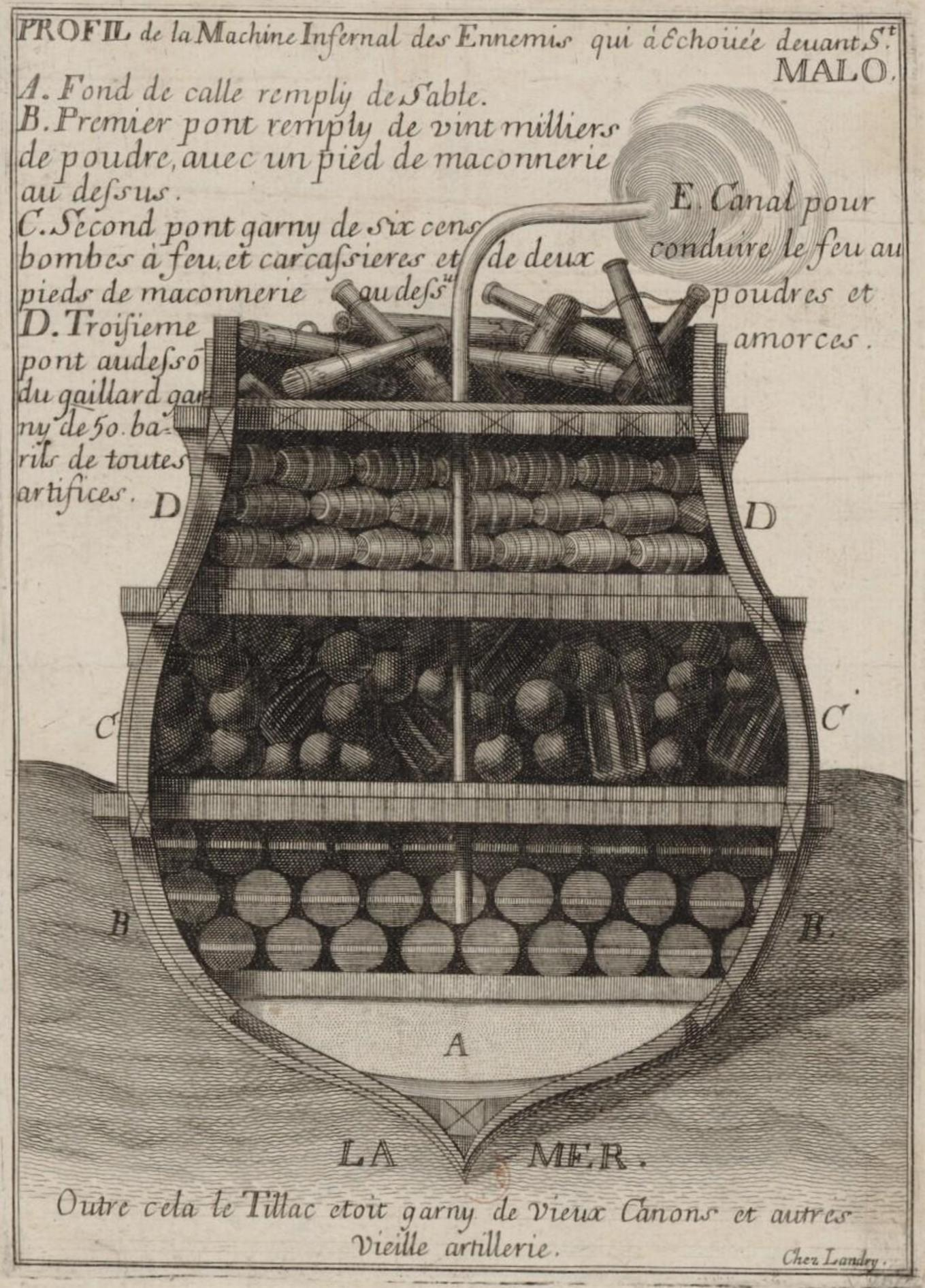 Profile of a fire boat wrecked on the shore in front of Saint-Malo. Approximate Traducation. A : Cale vessel filled with sand. B : First level of the boat filled with black powder with masonry above. C: Second level of boat containing 600 bombs. D : Third level boat with 50 barrels of explosives. E : Canal to conduct fire detonators and explosives. In addition, the ship was full of old guns.